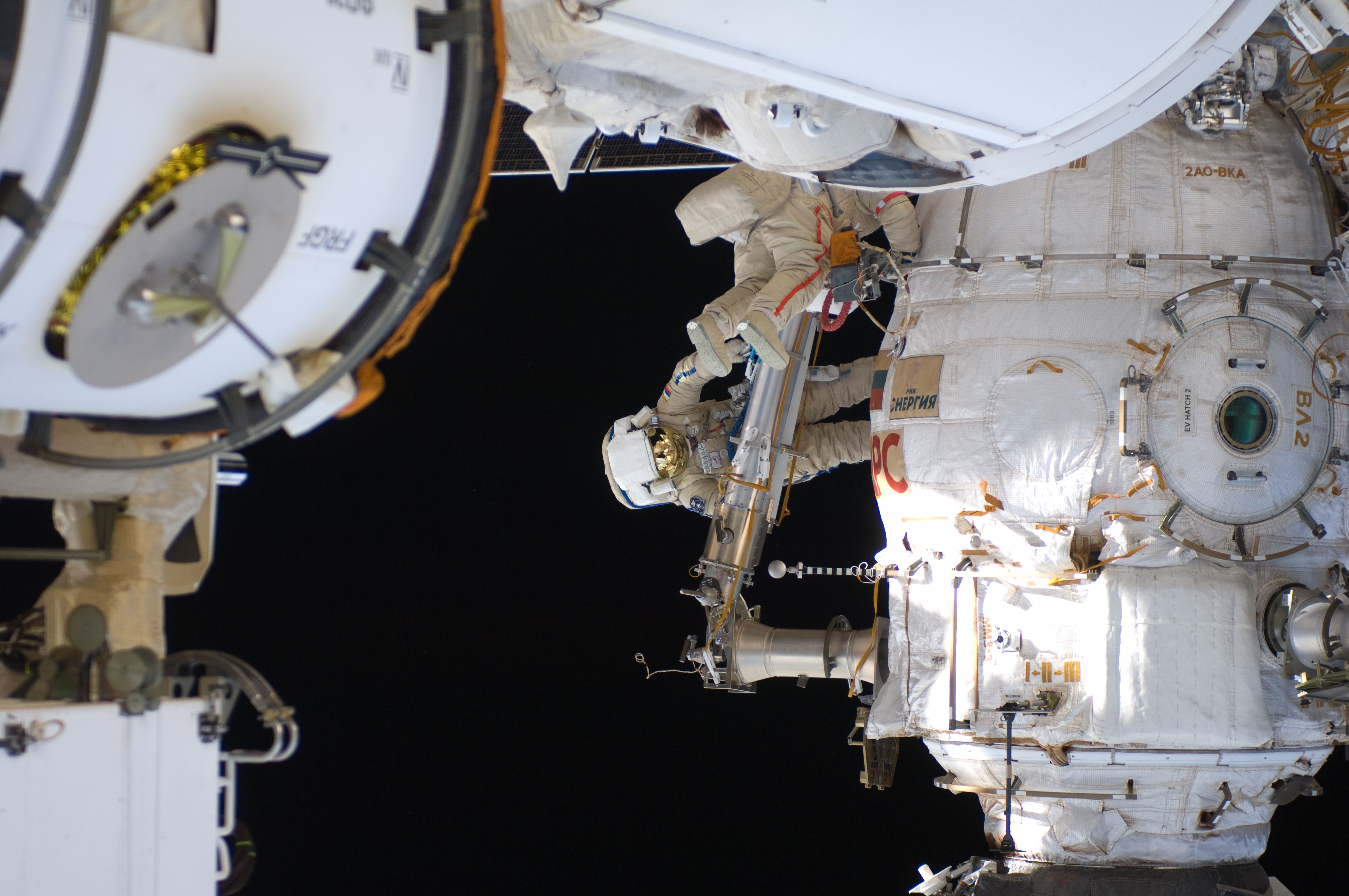 Russian cosmonauts Oleg Skripochka (center, with blue stripes) and Fyodor Yurchikhin, both Expedition 25 flight engineers, wearing Russian Orlan spacesuits, participate in a session of extravehicular activity (EVA) as construction and maintenance continue on the International Space Station. During the six-hour, 27-minute spacewalk, Skripochka and Yurchikhin installed a multipurpose workstation on the starboard side of the Zvezda Service Module's large-diameter section and relocated a television camera from one end of the Rassvet docking compartment to the other.